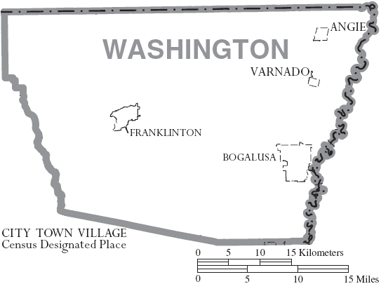 Map of Washington Parish, Louisiana, United States with municipal boundaries